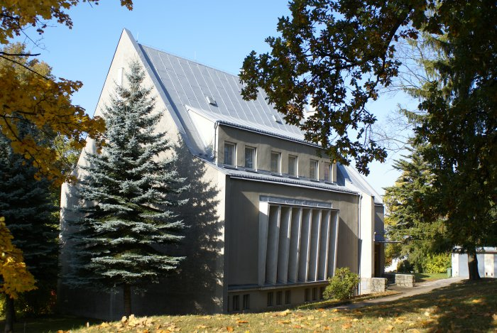 Baptist Church Jablonec nad Nisou, Czech Republic